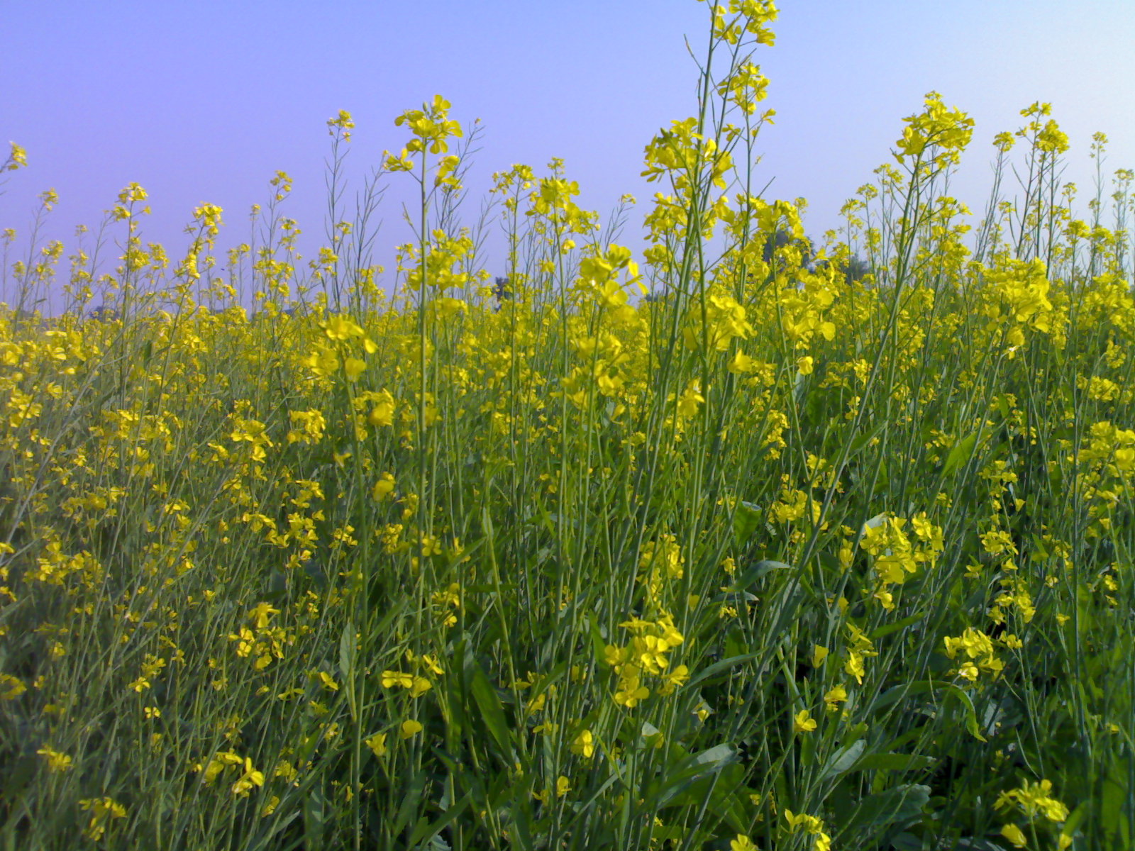 This photo is taken by me with my camera N72 in mustard feilds.This photo is absolutely free because it is taken by me and i have added in wikipedia in service of wikipedia.This photo is taken in a village 2PM near Rawla Mandi,district Shriganganagar,Rajasthan,India.Plz donot delete it.Shemaroo (talk) 14:59, 19 December 2010 (UTC)